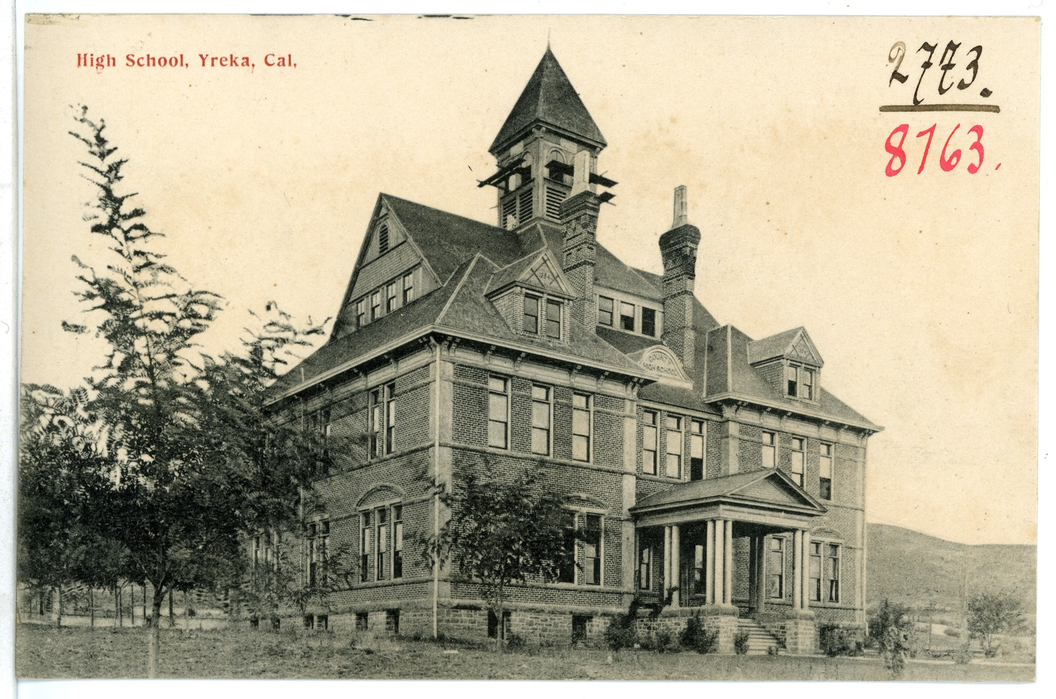 This postcard is from publisher Brück & Sohn in Meißen ( This postcard has a unique number 08163 and is available in a higher resolution at the publisher. This images was uploaded in a cooperation project between Wikipedians and the publisher.